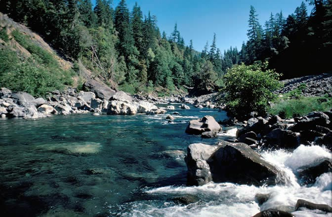 The Chetco River — near Boulder Creek, in Curry County, southwestern Oregon. A National Wild and Scenic River in the Klamath Mountains and Rogue River-Siskiyou National Forest.